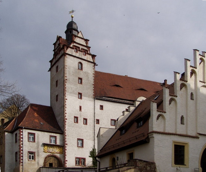 The tower of Colditz Castle, Saxony